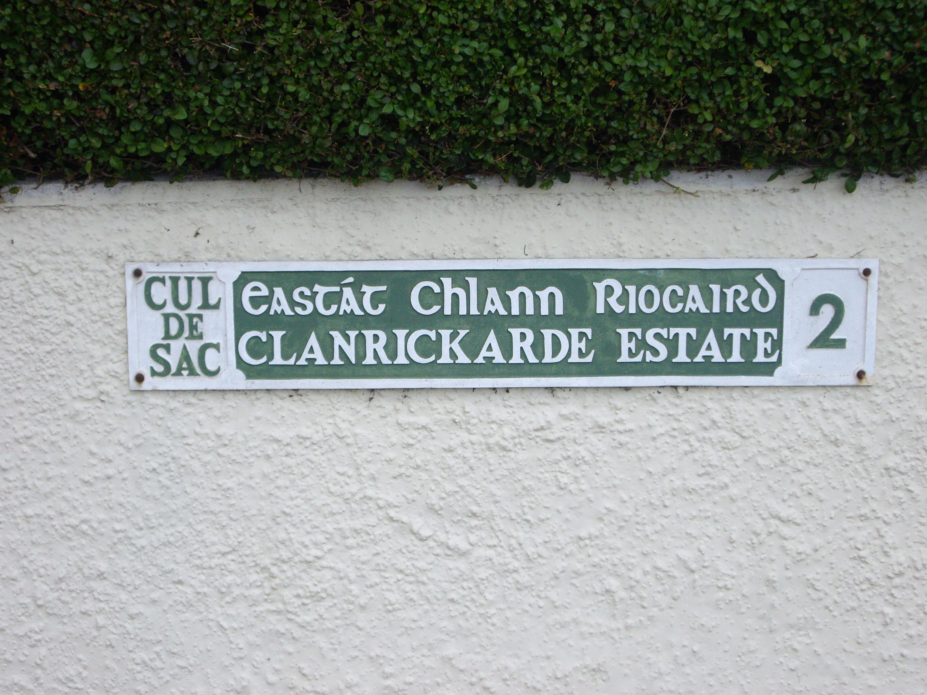 Nameplate at Clanrickarde Street, Cork City, Ireland; the number 2 refers to the postal district of the city.